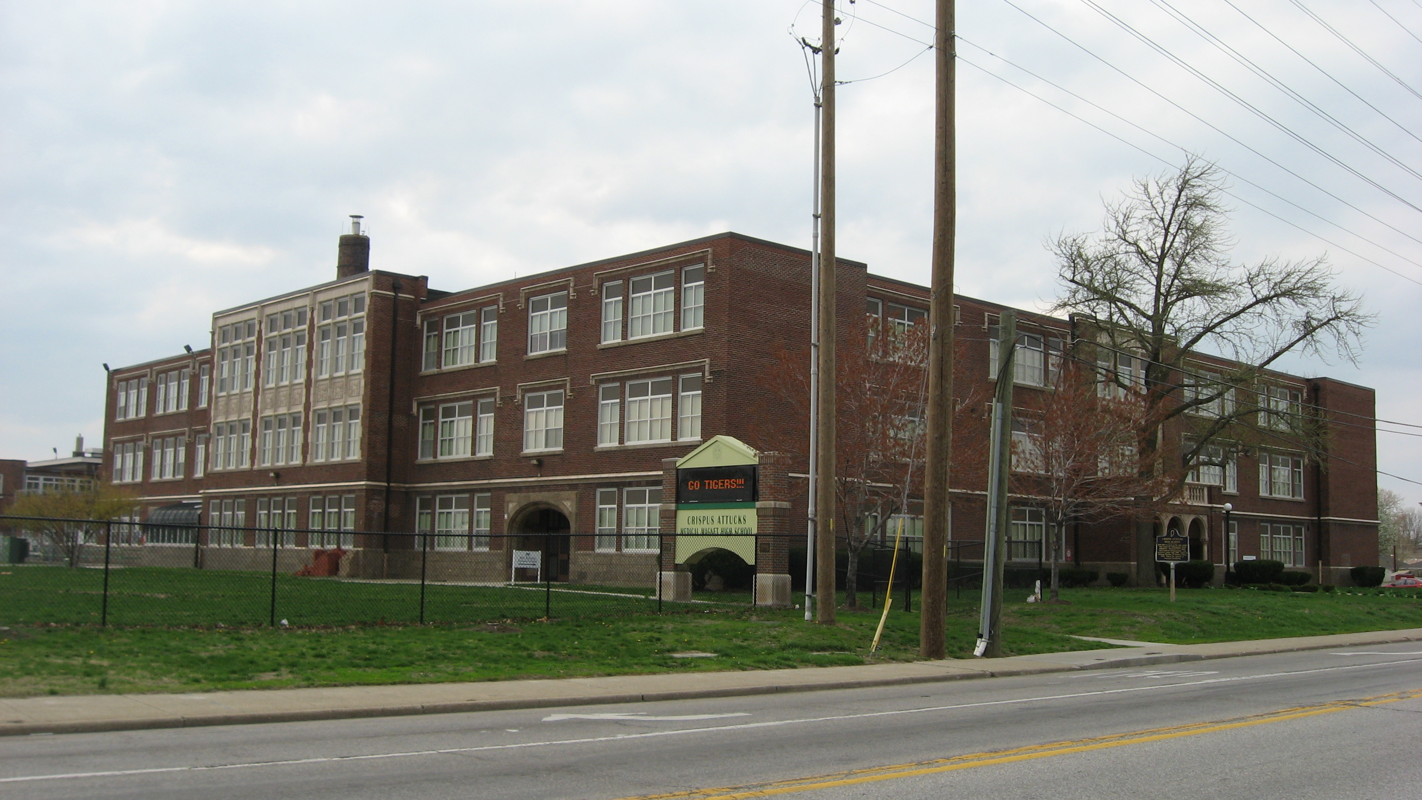 Front and southern side of Crispus Attucks High School, located at 1140 N. Martin Luther King, Jr., Street in Indianapolis, Indiana, United States. Built in 1927, it is listed on the National Register of Historic Places.